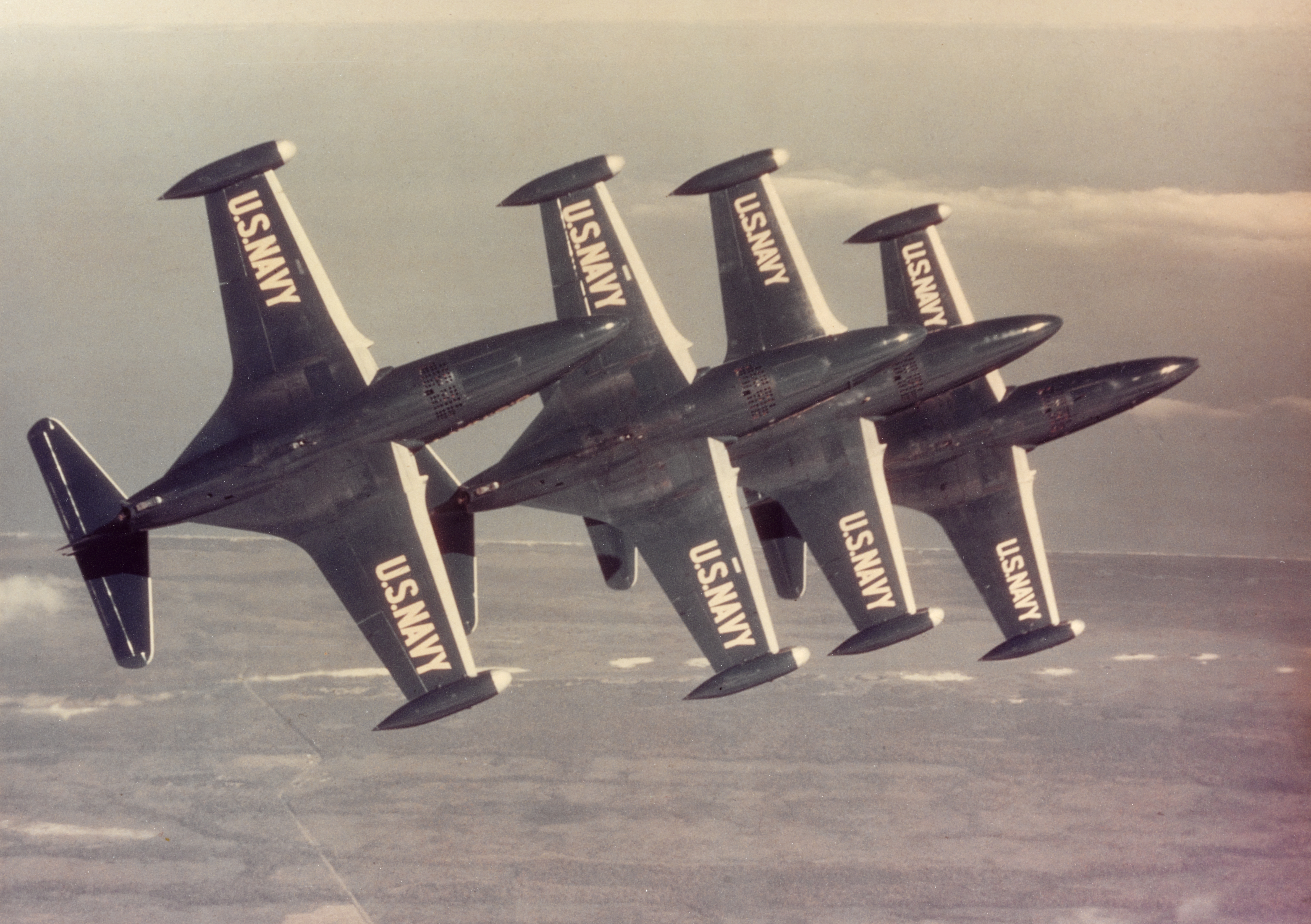 Grumman F9F-5 Panther jets of the U.S. Navy flight demonstration team Blue Angels, 8 December 1952.